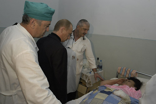 Vladimir Putin visits the Beslan hospital on September 4, 2004, after the terrorist act.